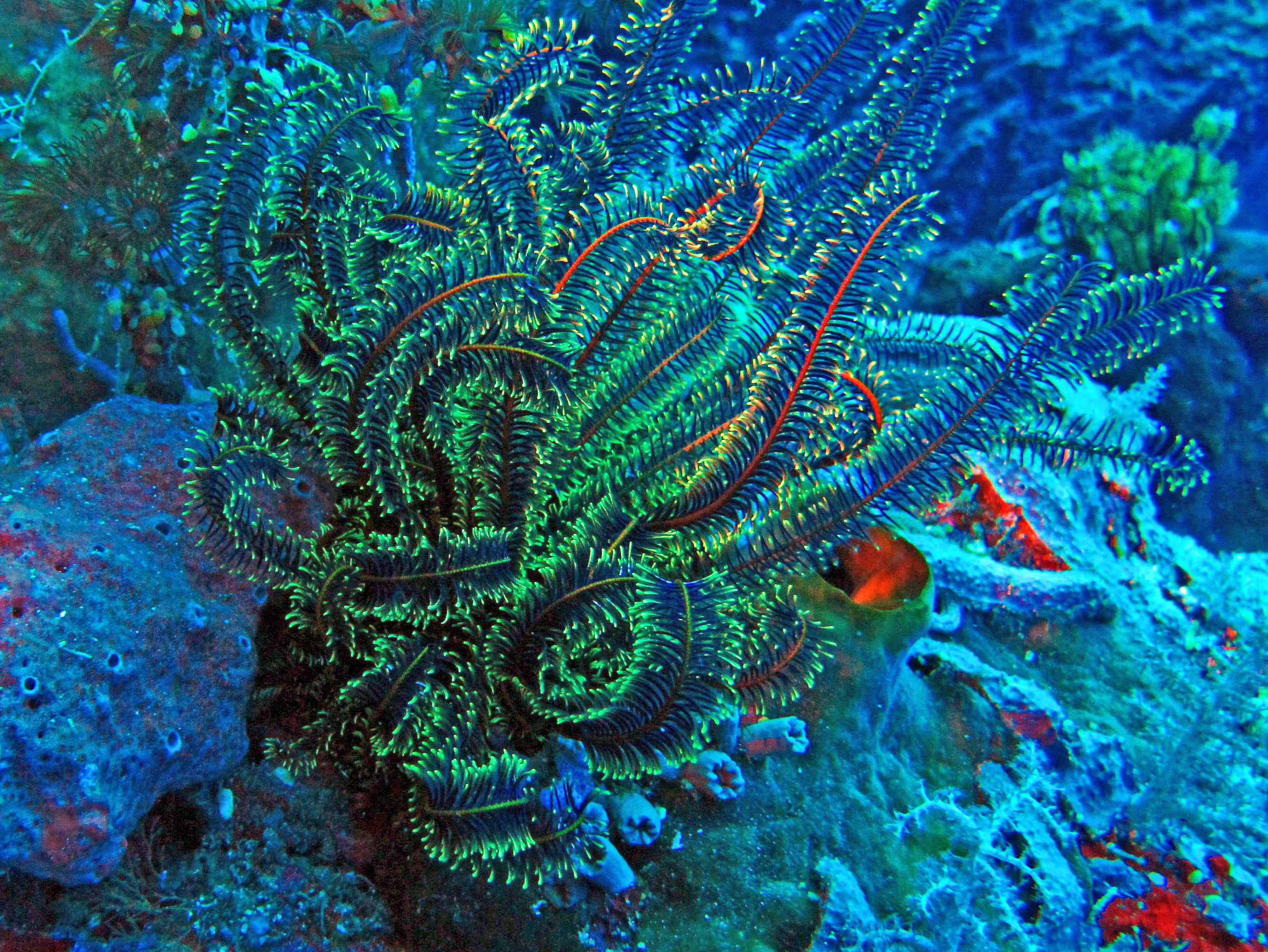 Oxycomanthus bennetti in Philippines